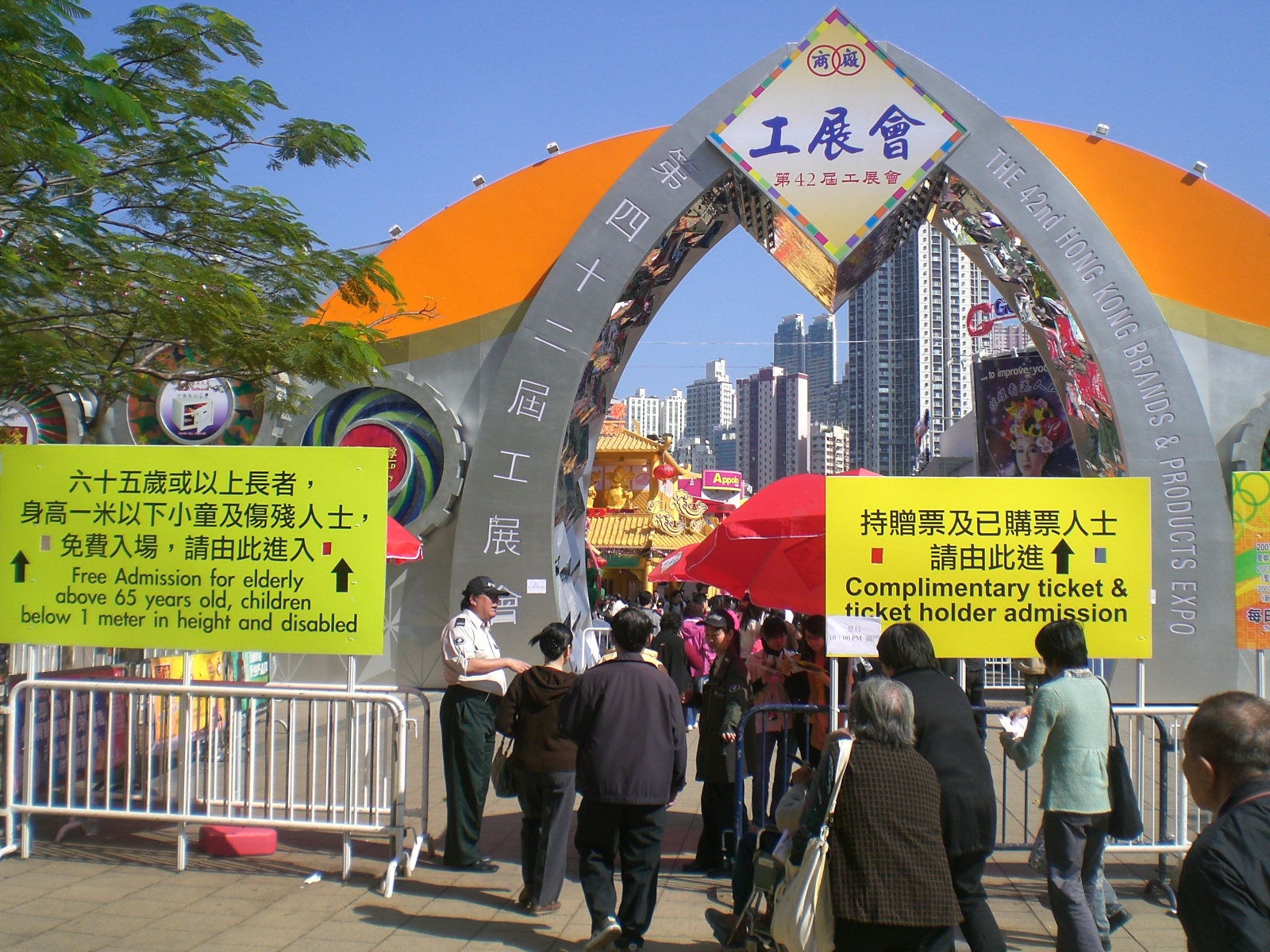 Hong Kong Brands and Products Expo 香港國際工業出品展銷會